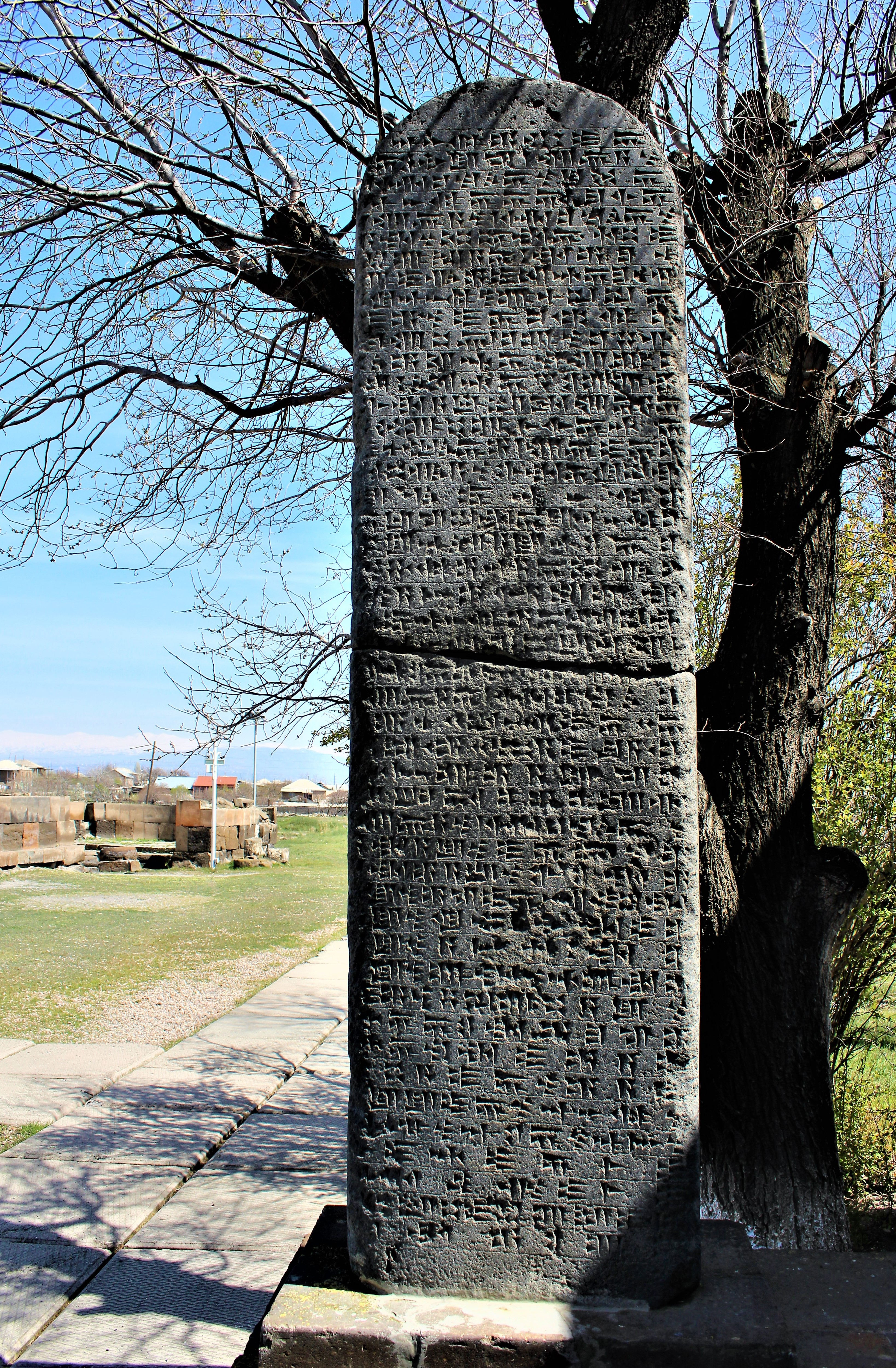 A cuneiform inscription of urartian king of Rusa II commemorating building a canal to channel water to the city of Quarlini from the Ildaruni (Hrazdan River) at the Zvartnots historical museum.